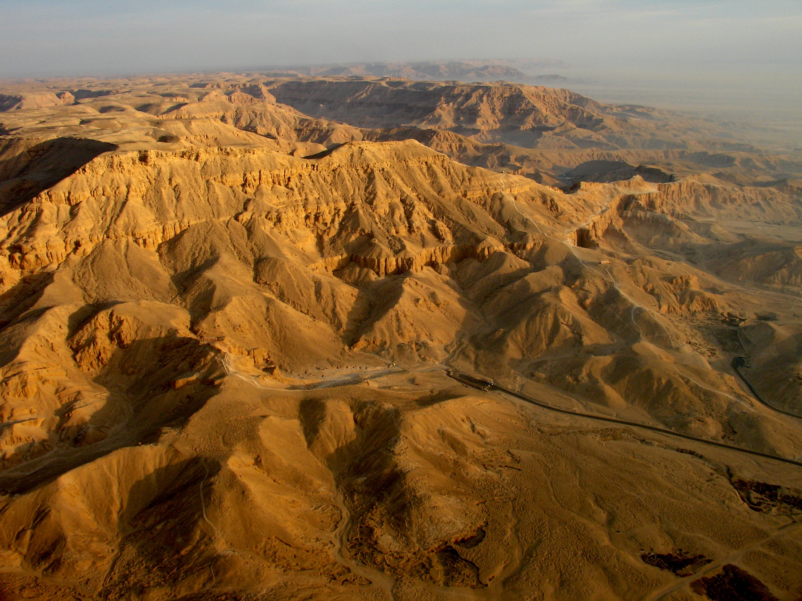 Valley of the Queens as seen from a balloon flight (Luxor, Egypt). The visible road leads to the Valley.